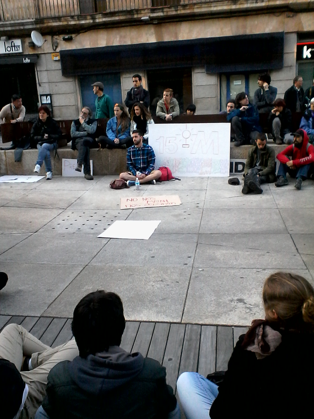 General Asembly of Nuit Debout in Salamanca, Spain, during the mundial manifestation Global Debout